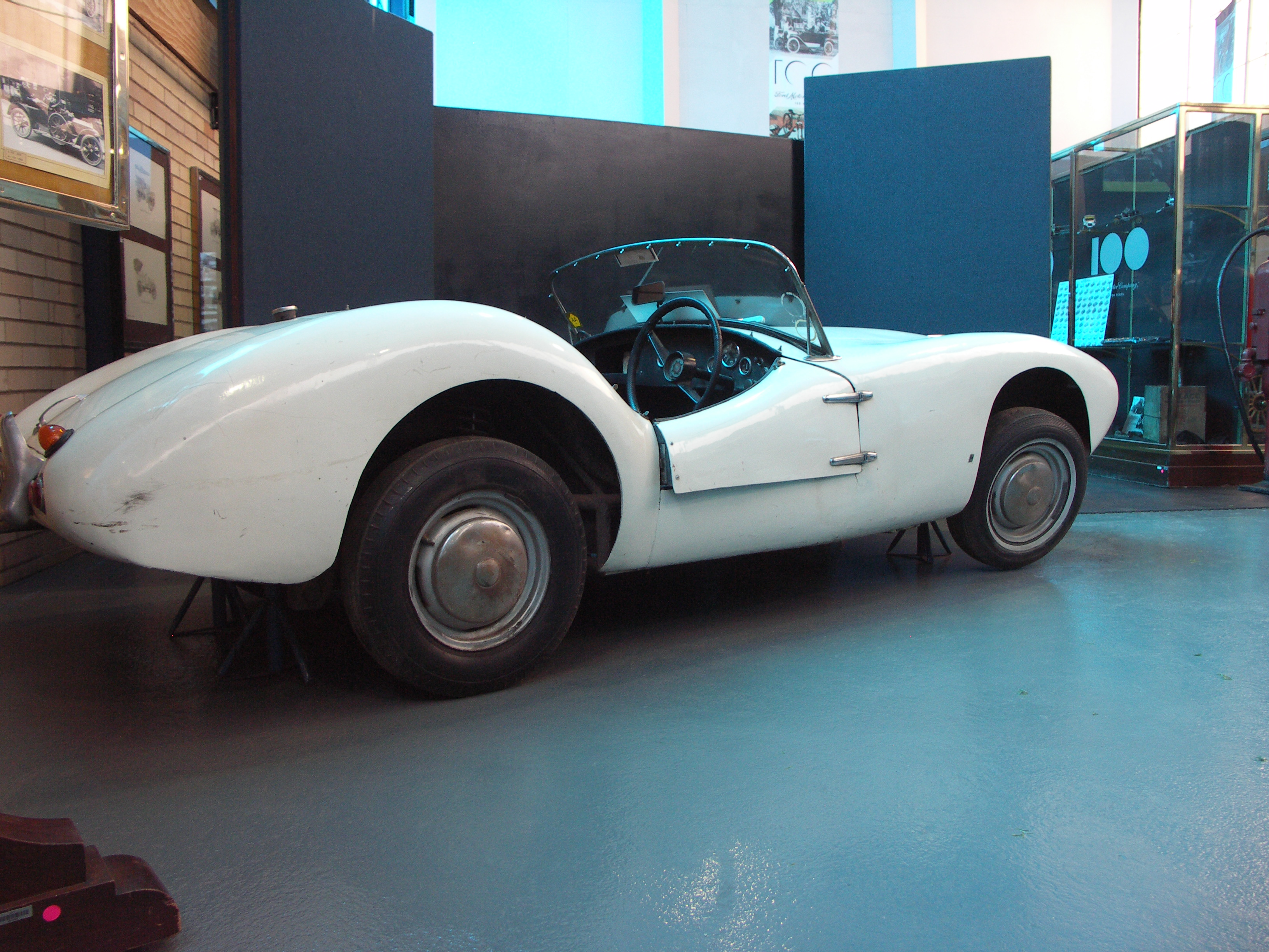 The South African manufactured Protea sports car